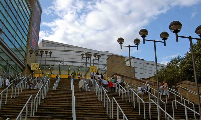 The steps to the MEN arena Tonight it's The Eagles playing the venue.